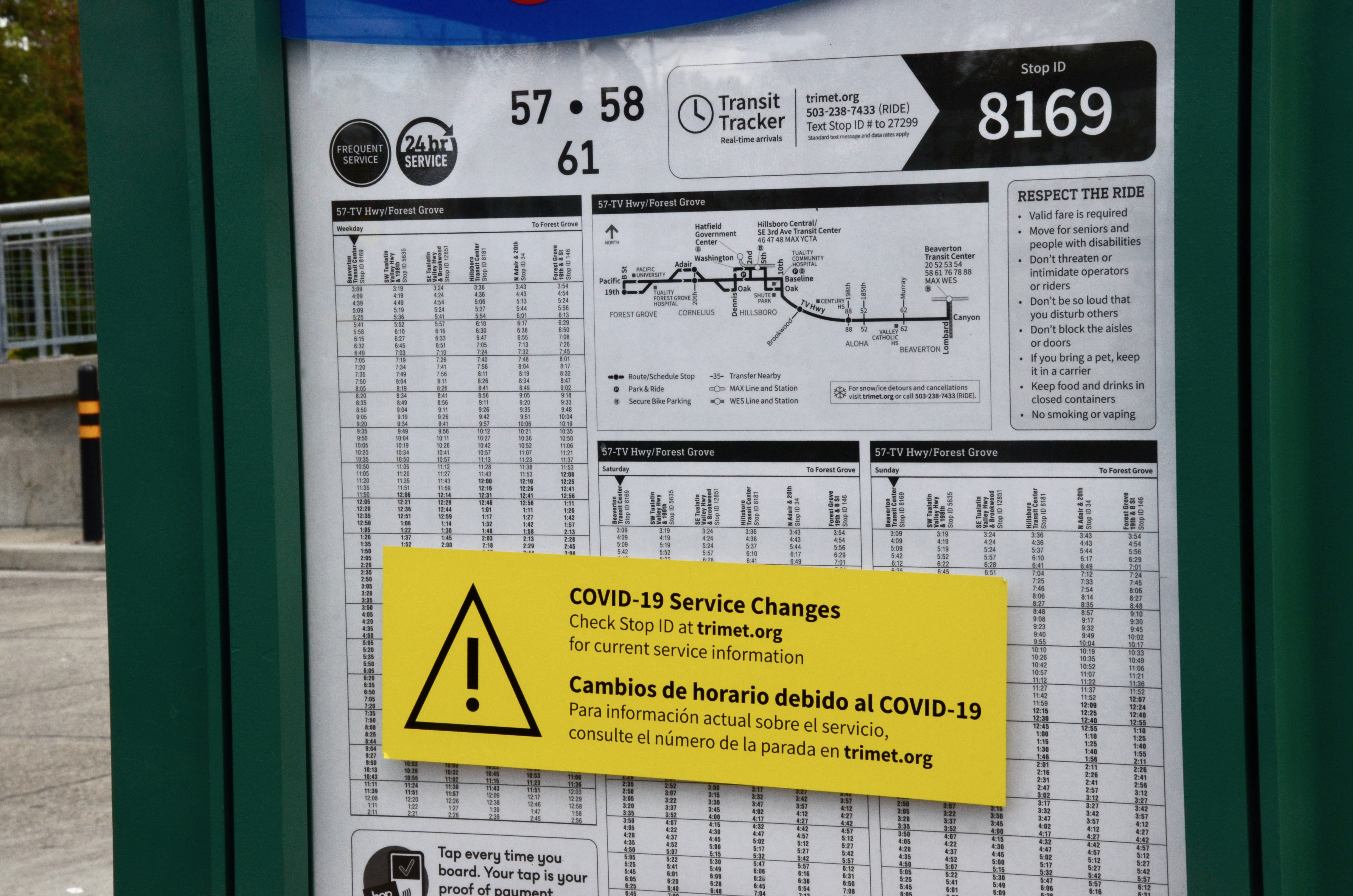 "COVID-19 Service Changes" sticker temporaily posted by TriMet (the transit agency serving the Portland, Oregon, metropolitan area) over the printed bus-schedule display at a stop at the Beaverton Transit Center, to notify waiting riders that a new schedule (with reduced service) has been temporarily imposed in connection with the 2020 coronavirus pandemic, and that the posted schedules are currently not in effect.